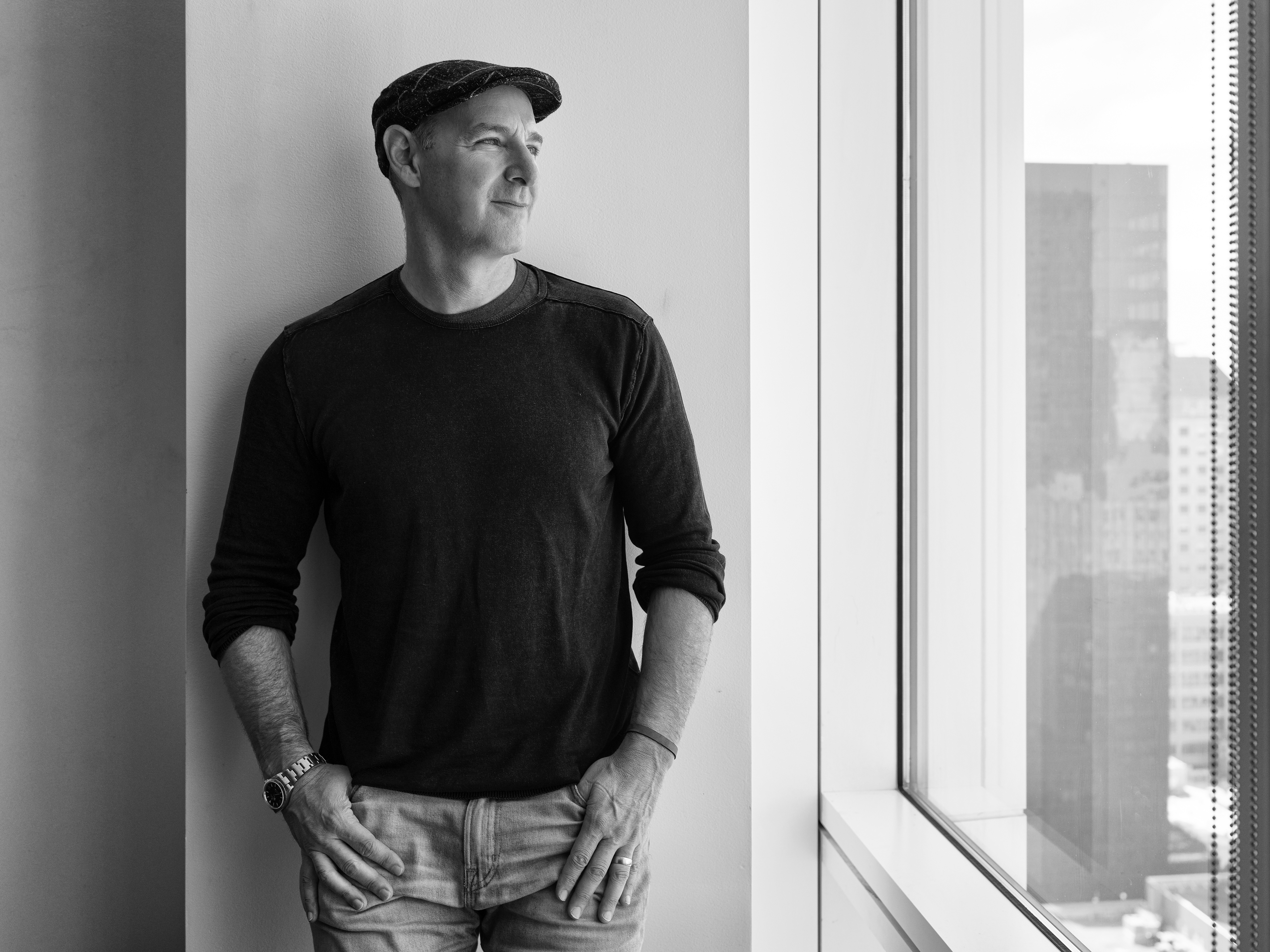 Ted Wang in San Francisco (2019) by Christopher Michel